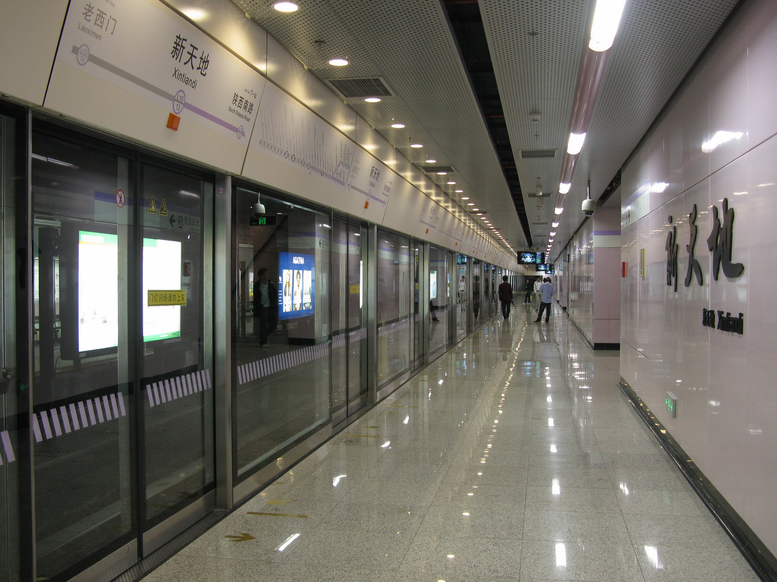 Line 10 Platform of Xintiandi Station, Shanghai Metro